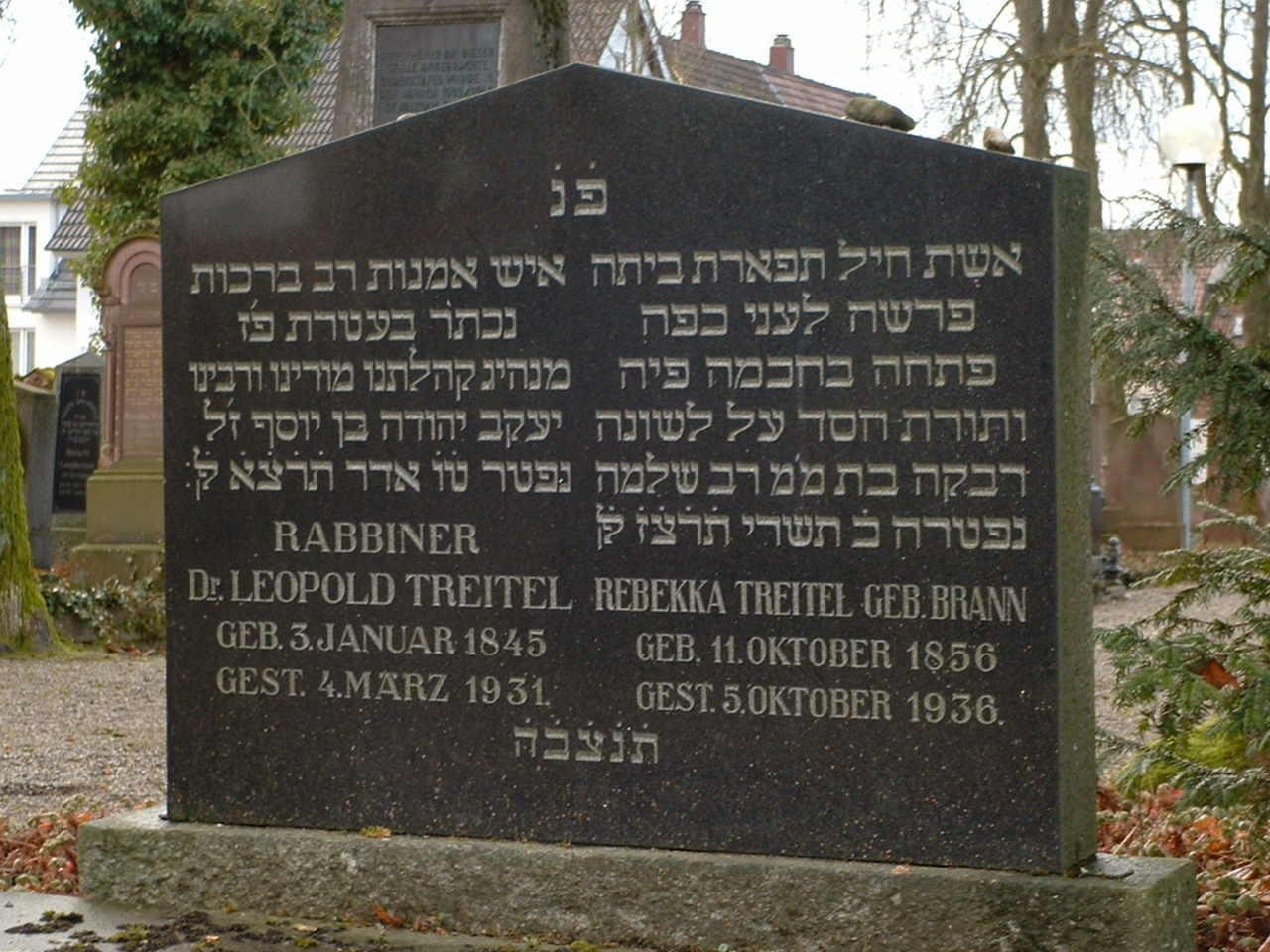 Gravestone marking the grave of Leopold Treitel (last rabbi of the Jewish community in Laupheim) and his wife Rebekka on the Jewish cemetery in Laupheim